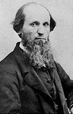 A Photo of Michał Belina Czechowski